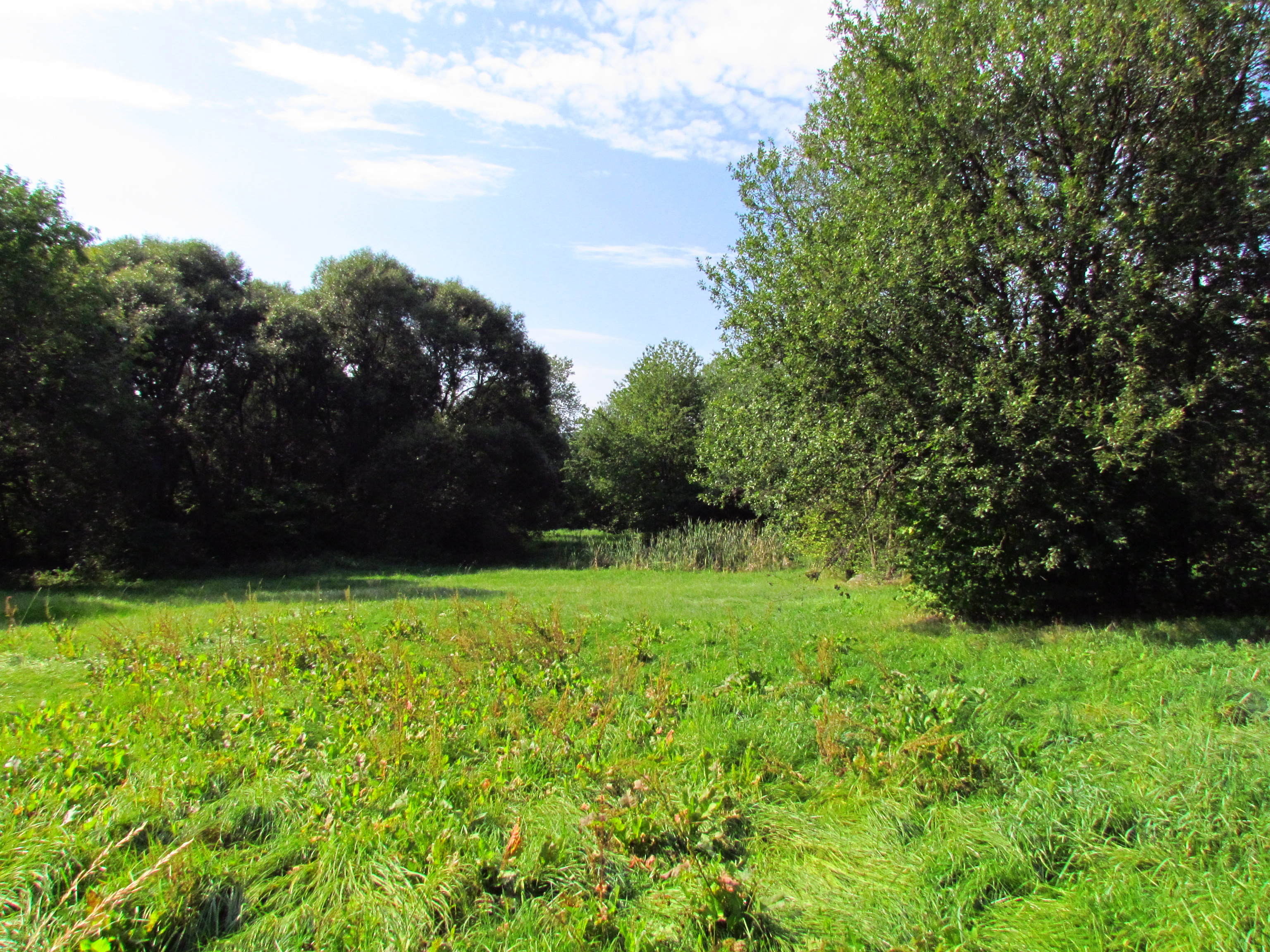 Nature reserve Pazderna, Přeckov, Třebíč District, Czech republic.